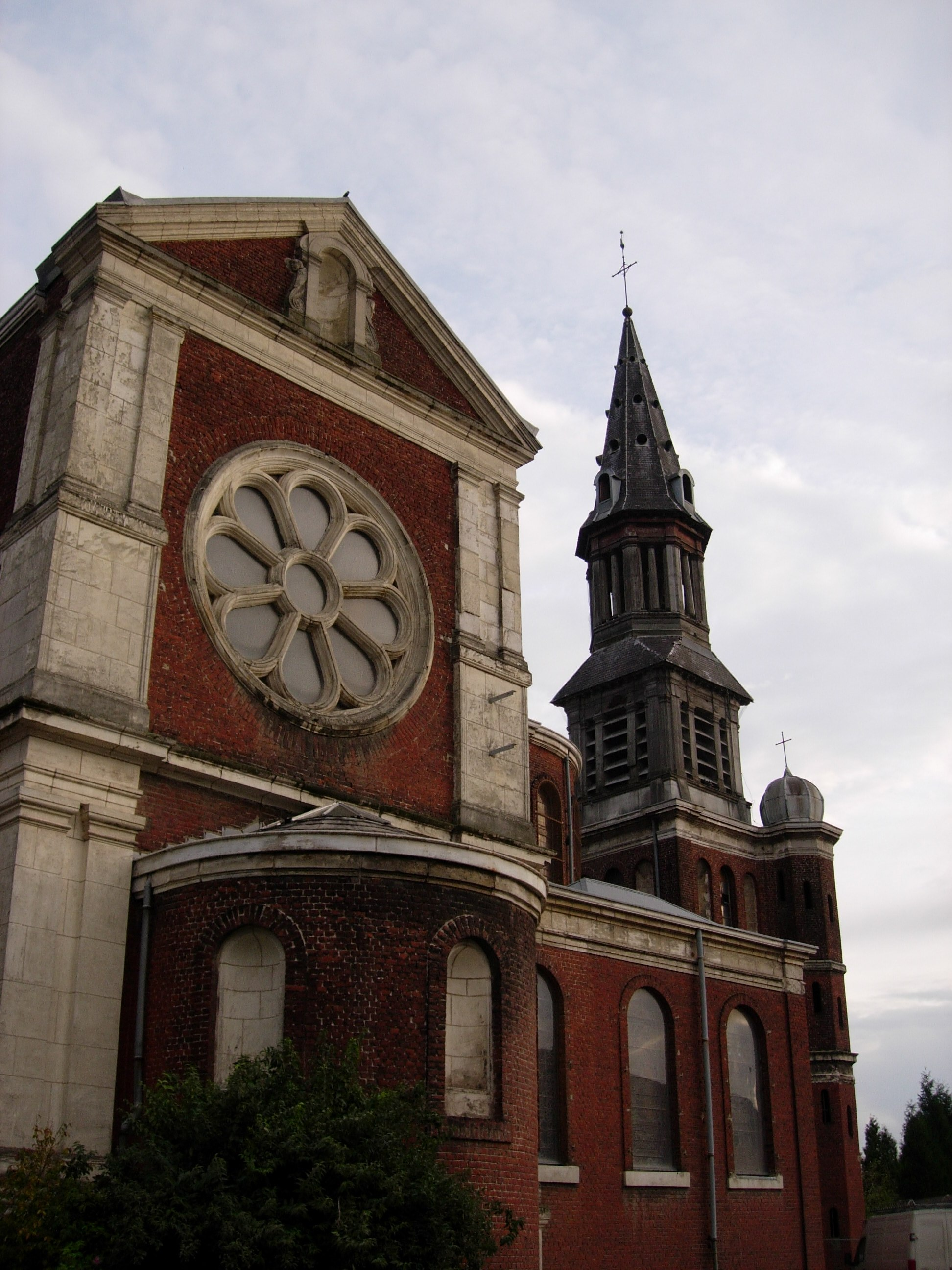 Our Lady of Grace Church